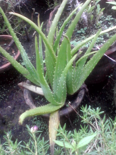 alloevera